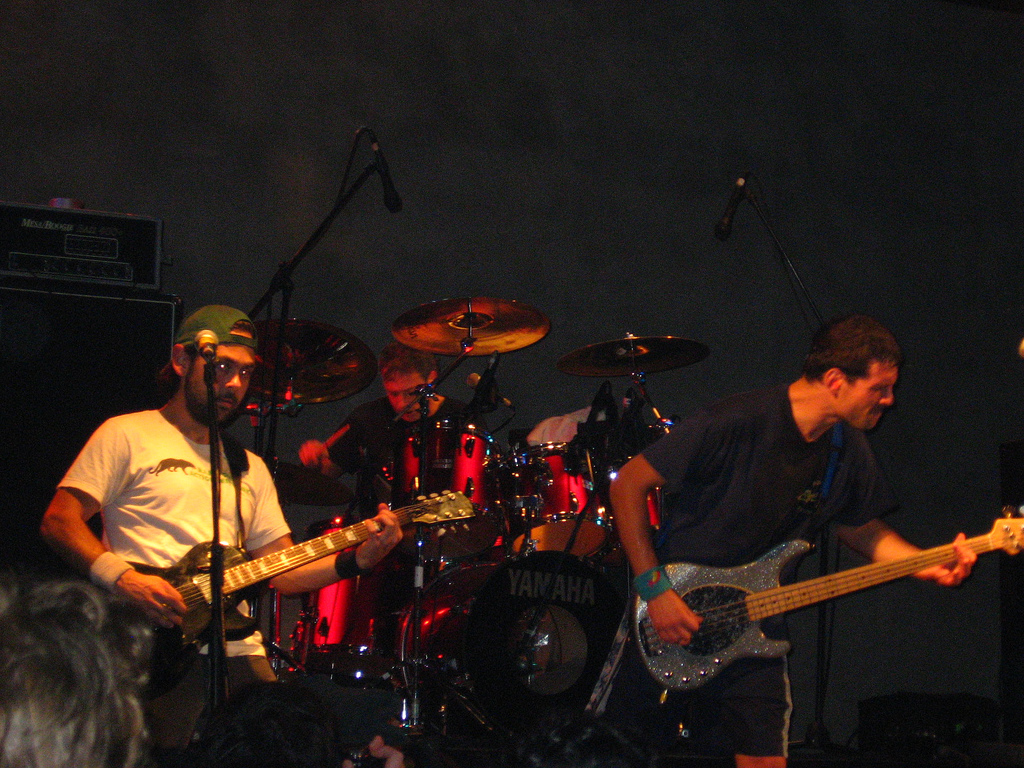 Propagandhi performing at Galpon Victor Jara in Santiago-Chile. Sicilianu: scn:Propagandhi ô Galpon Victor Jara n Santiagu dû Cili.